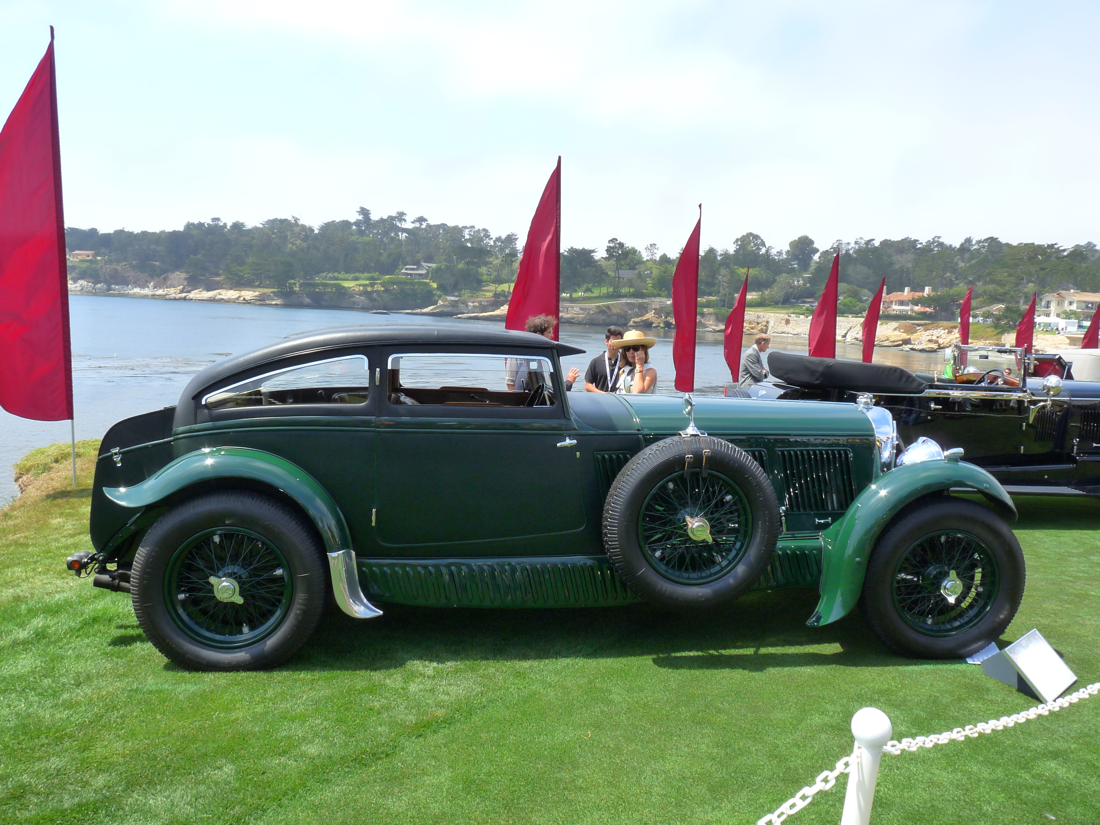 Bentley Speed Six coupé Weymann body by J Gurney Nutting 1930 Original coachwork Chassis HM2855 11ft 8½inches wheelbase Engine HM2863 Speed Six Reg GJ 3811 delivered May 1930 first owner Woolf Barnato. Not the "Blue Train" car it was long thought to be because it was delivered too late